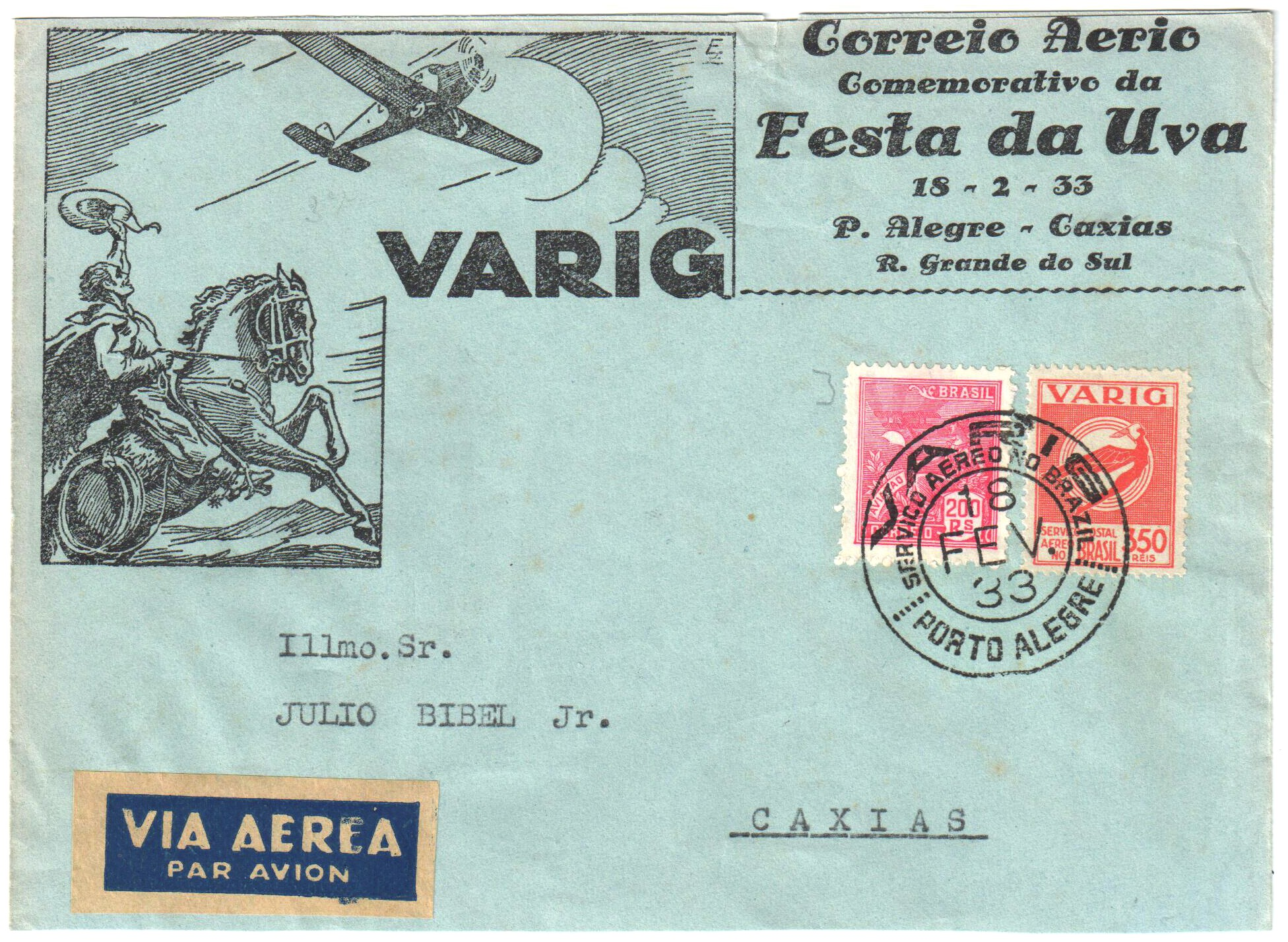 Brazil 1933-02-18 airmail cover sent through Varig to Caxias.